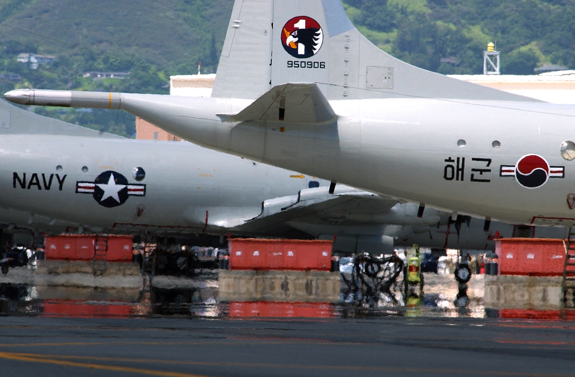 040703-N-6932B-036 Marine Corps Air Station Kaneohe, Hawaii (July 3, 2004) - Patrol aircraft representing the Republic of Korea and the United States, line the tarmac at Marine Corps Air Station Kaneohe, Hawaii. The aircraft are scheduled to take part in the multi-national maritime exercise Rim of the Pacific 2004 (RIMPAC). RIMPAC is the largest international maritime exercise in the waters around the Hawaiian Islands. This year’s exercise includes seven participating nations; Australia, Canada, Chile, Japan, South Korea, United Kingdom and United States. RIMPAC is intended to enhance the tactical proficiency of participating units in a wide array of combined operations at sea, while enhancing stability in the Pacific Rim region. U.S. Navy photo by Photographer’s Mate 2nd Class Richard J. Brunson (RELEASED) For more information go to